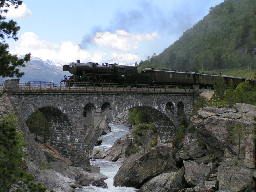 Steam-engine NSB 63a-2770 at the Stuguflåtbrua, Raumabanen, Norway.